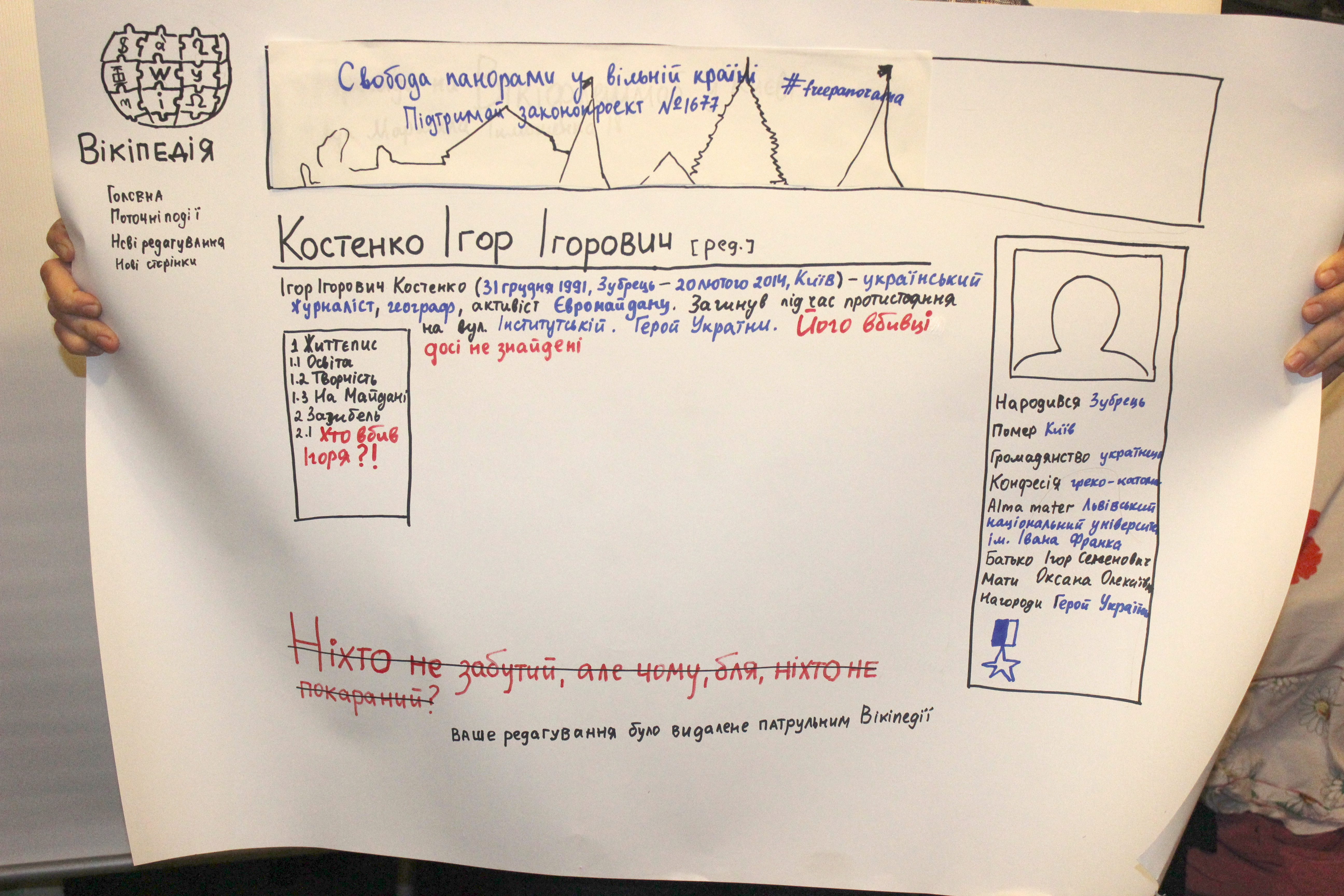 poster for the protest on Maidan Nezalezhnosti, Kyiv on the 20th of February 2015